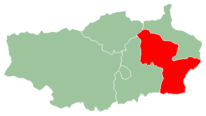 Location map of Antanifotsy District in Vakinankaratra Region.